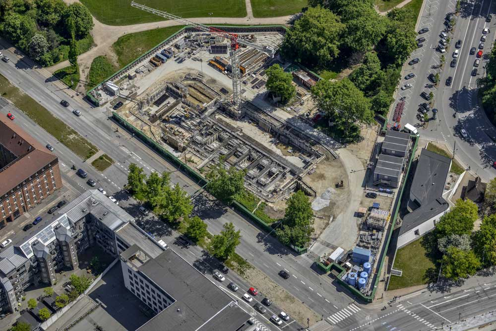 Air photo of the City Circle Line being built, part of the Copenhagen Metro. I got the following permission to use these images from kjeld madsen on 2014-10-07: Dragør Luftfoto ApS frigiver hermed billederne i galleriet under licensen Creative Commons Attribution ShareAlike 3.0 license.